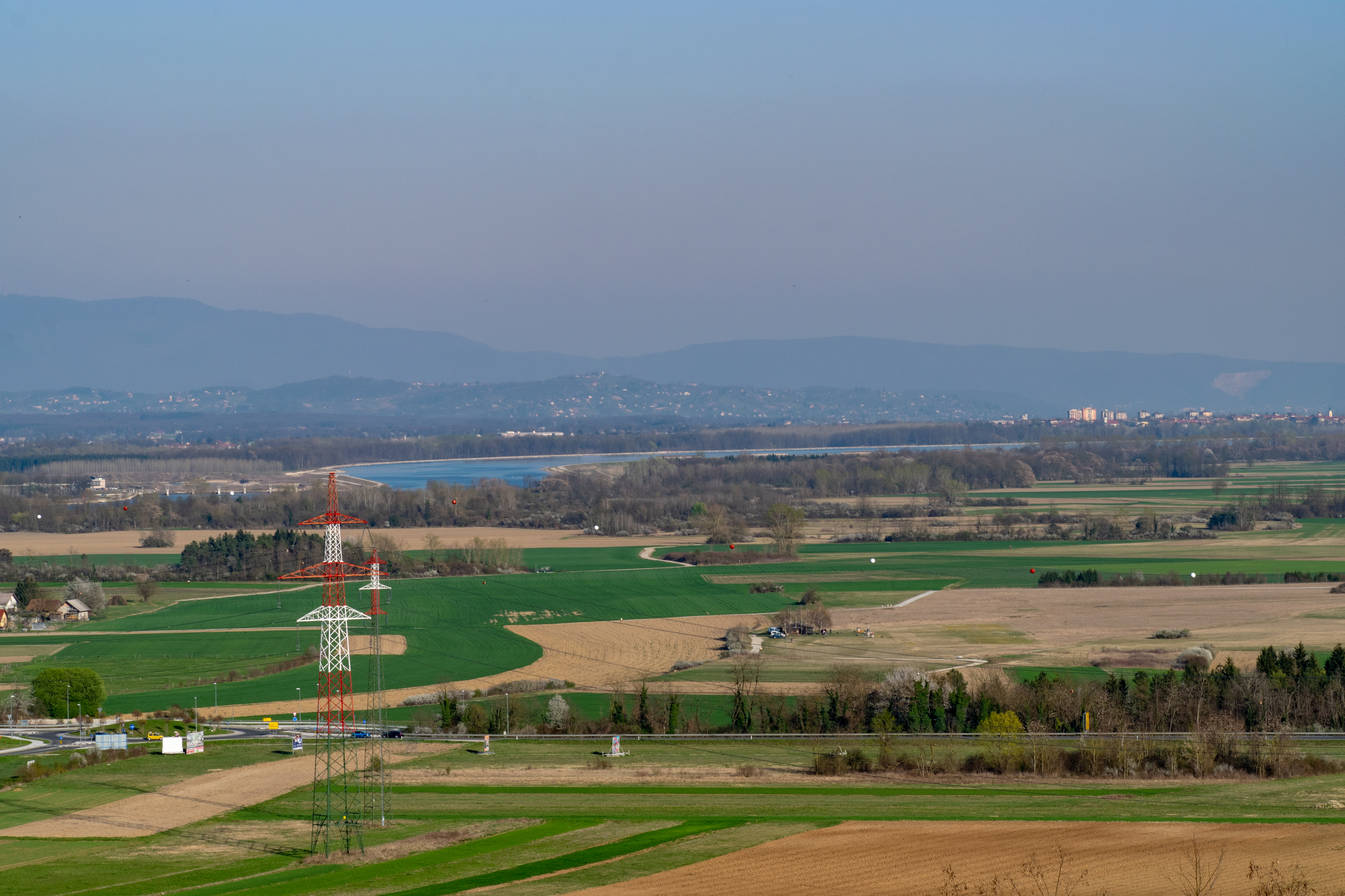 Brežice far right